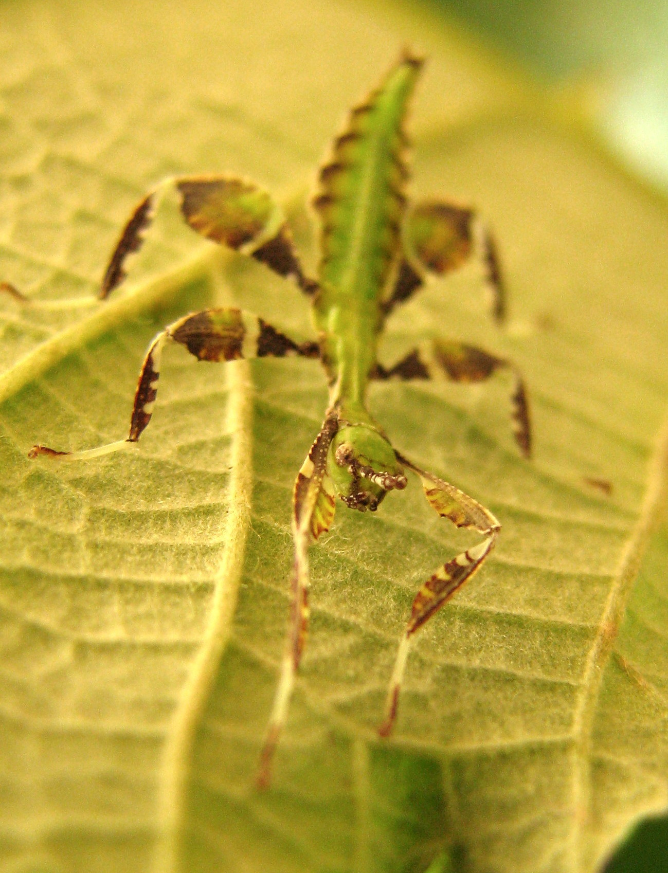 Phyllium philippinicum - larva L1 - few days old